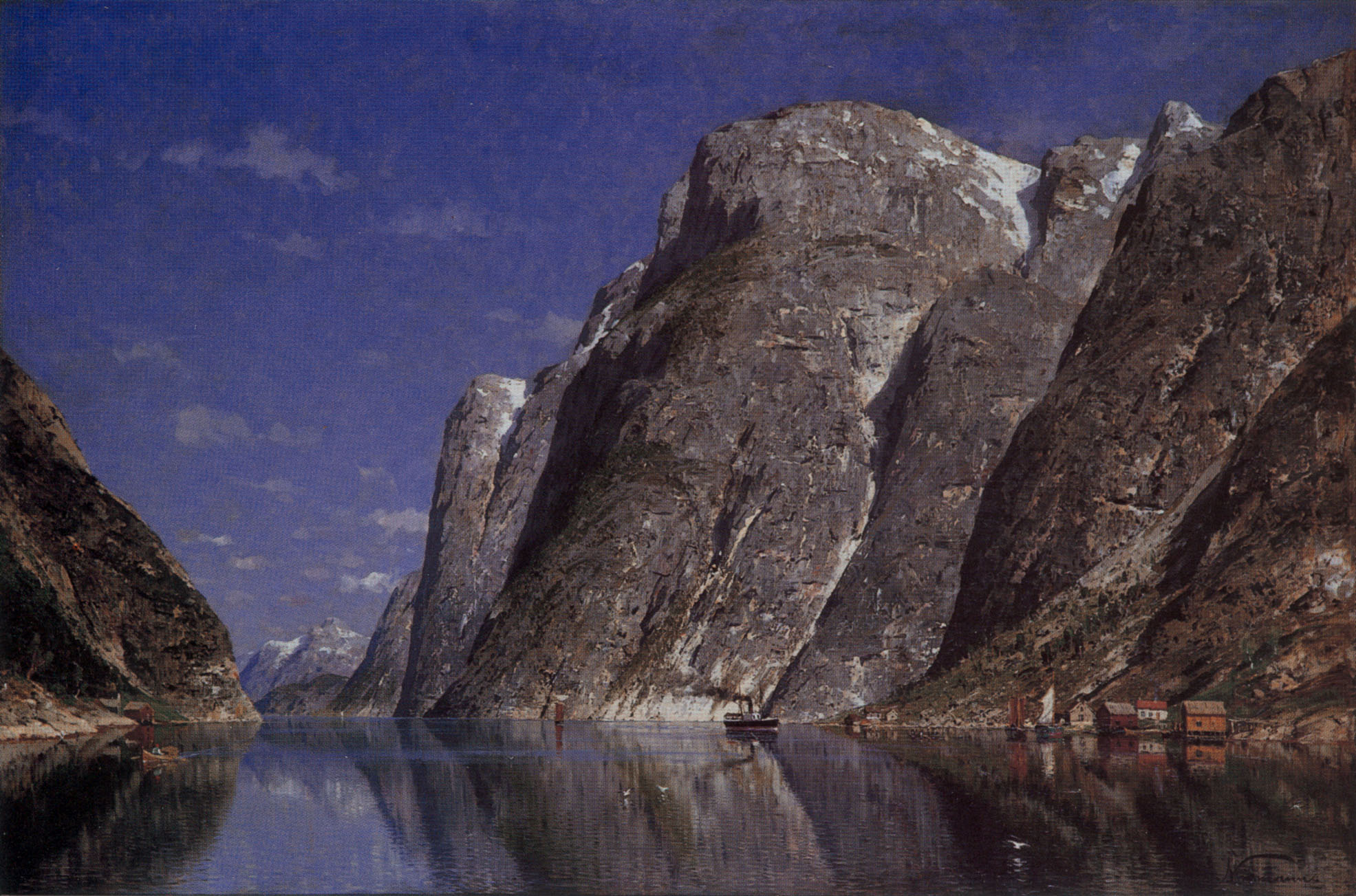 The Steamship